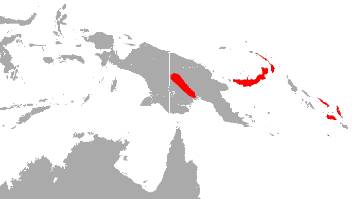 Large-Eared Sheath-Tailed Bat (Emballonura dianae) range